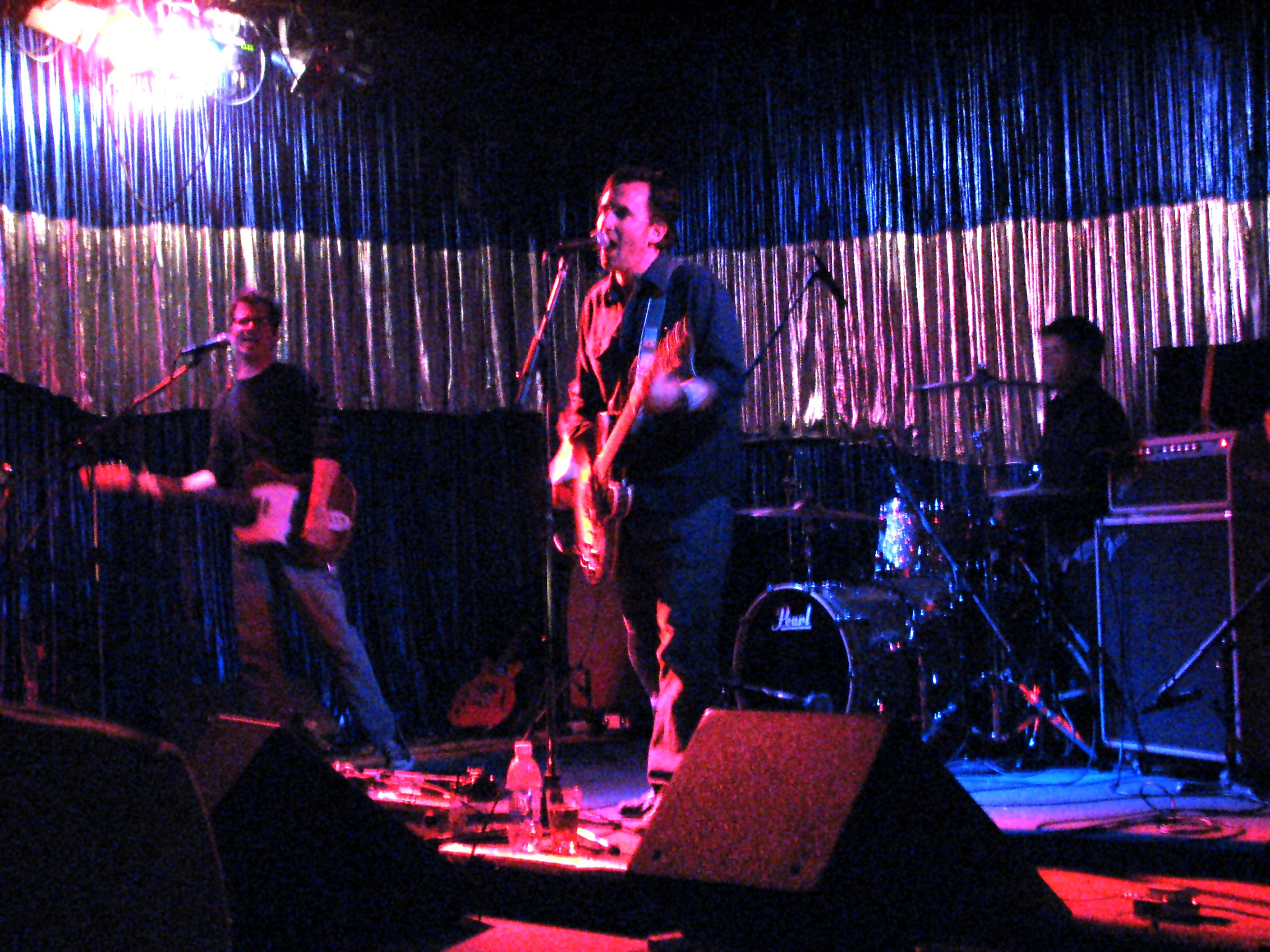 Actionslacks